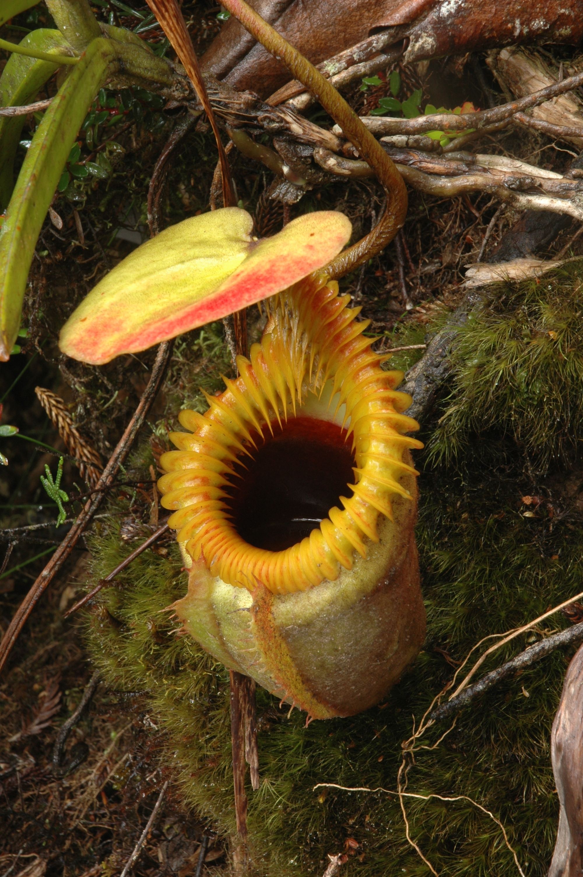 Nepenthes villosa Kinabalu by Jeremiah Harris